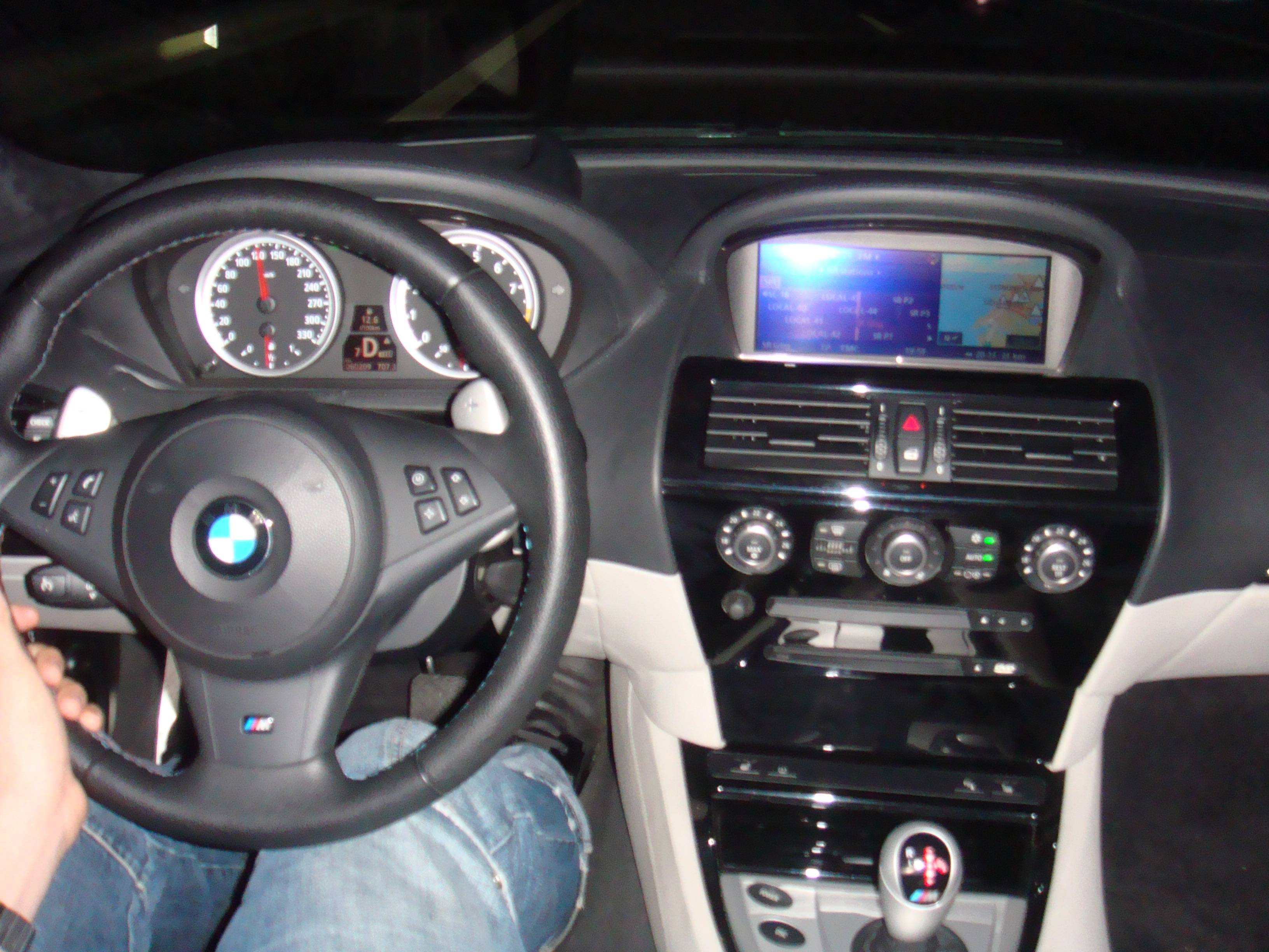 Interior of a Swedish BMW M6 driving from Helsingborg to Gothenburg